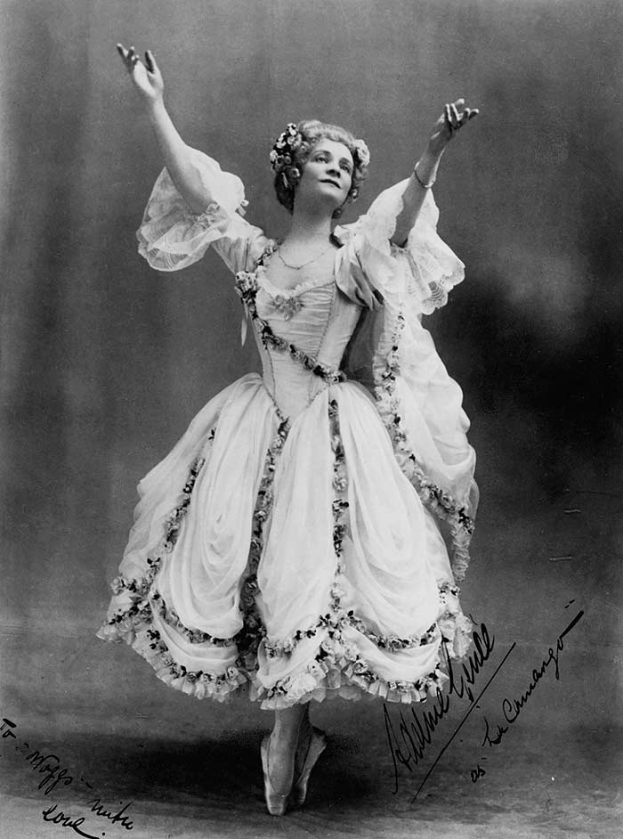 Photo of Adeline Genée in "Camargo". London, 1897. Sydney, 1912cf. [1]